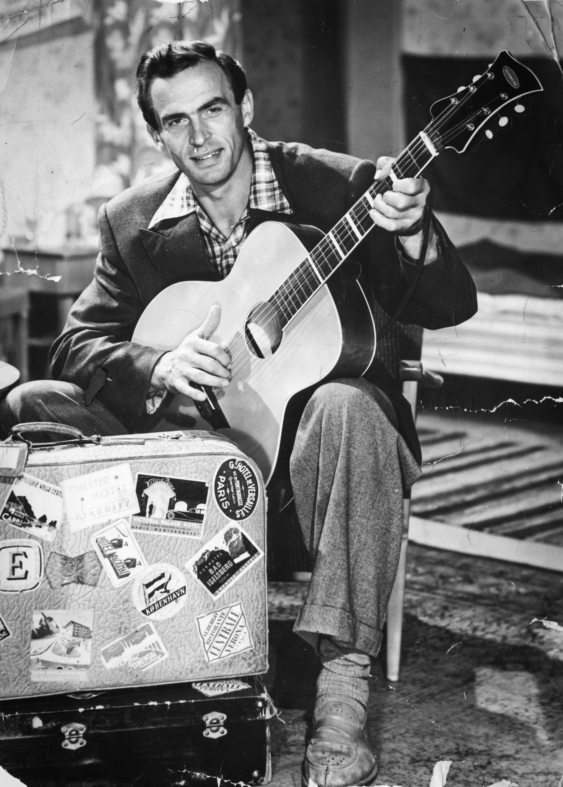 Publicity photograph of the Finnish artist and athlete Tapio Rautavaara for the film Salakuljettajan laulu.